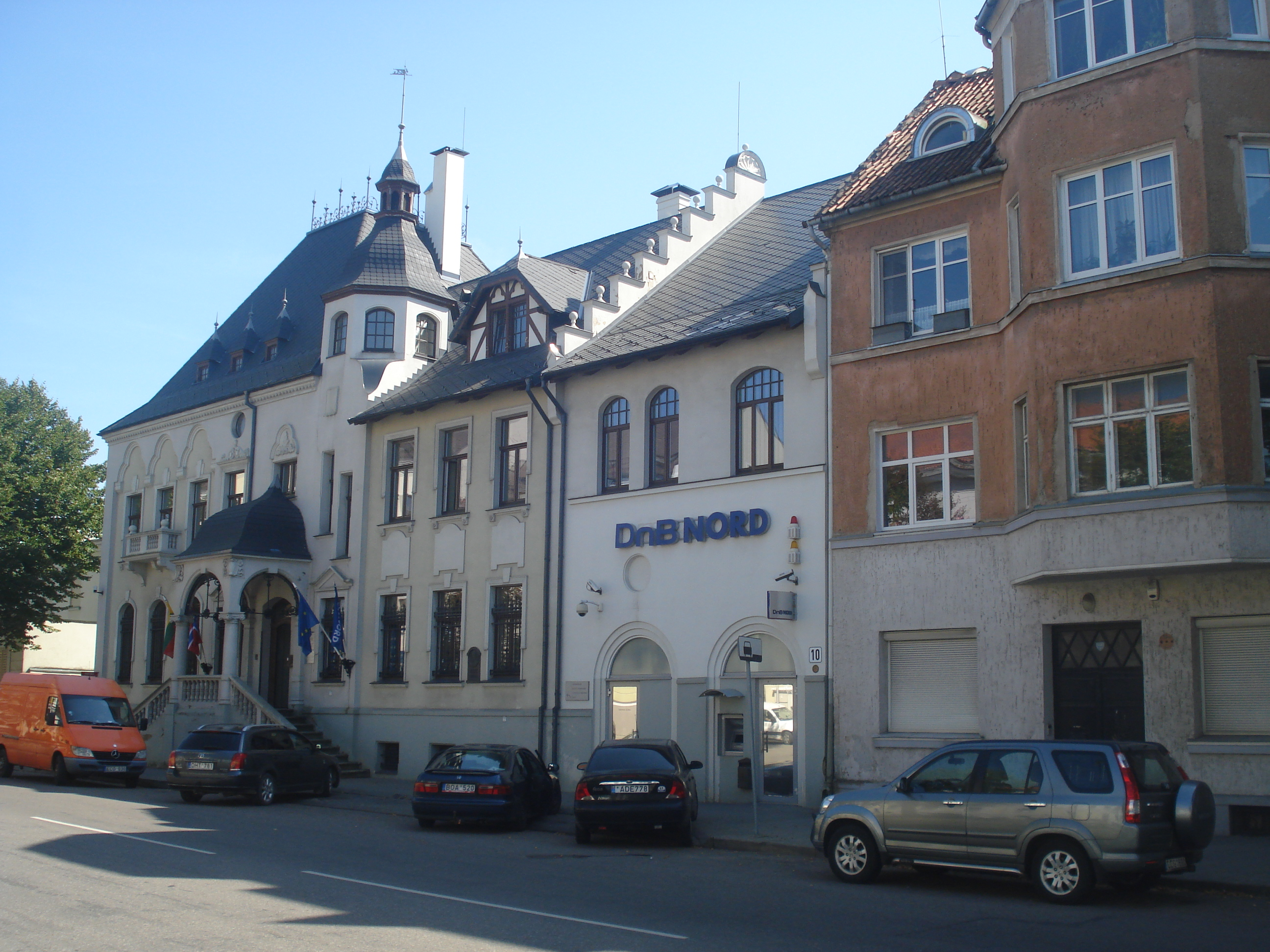 The building of the bank in Liepų Street. Klaipėda (Lithuania)